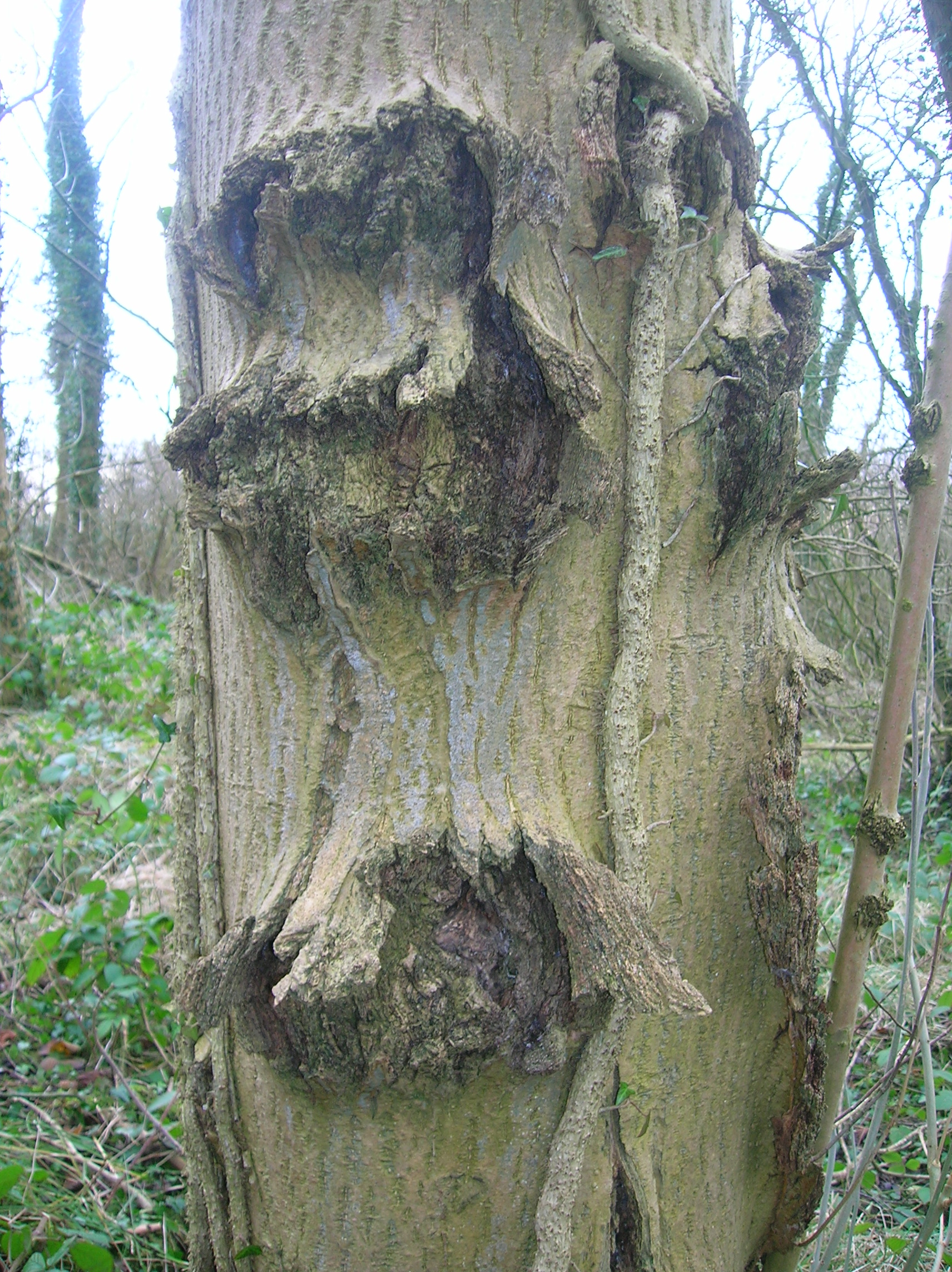 Ash tree canker, Lawthorn Wood, North Ayrshire, Scotland.